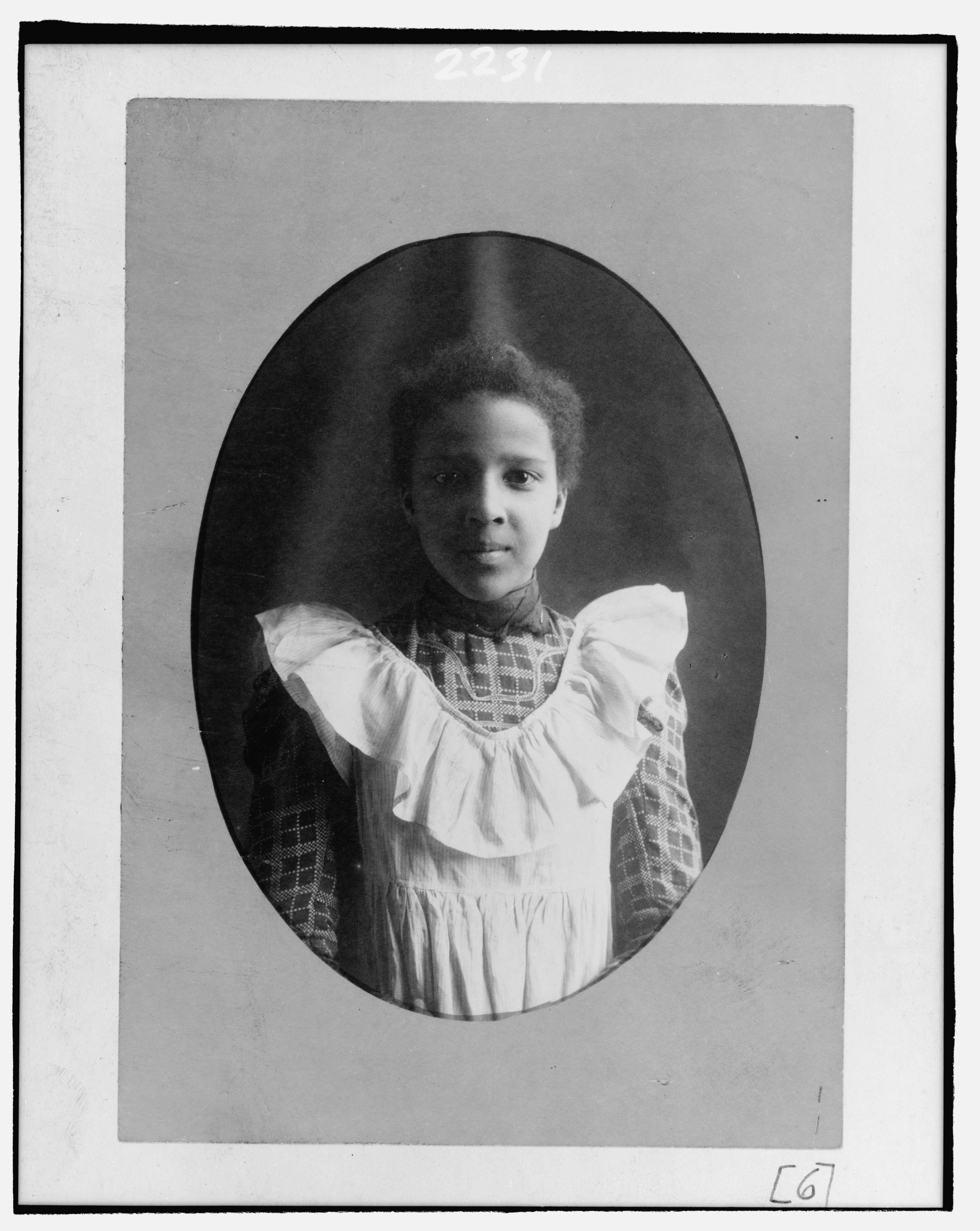 Title: Bazoline Estelle Usher, Atlanta University student, half-length portrait, facing front Physical description: 1 photographic print : gelatin silver. Notes: Published in: Photography on the color line / Shawn M. Smith. Durham: Duke University Press, 2004, p. 61.; Forms part of: Daniel Murray Collection (Library of Congress).; Title identification information from Photography on the color line.; In album (disbound): Types of American Negroes, compiled and prepared by W.E.B. Du Bois, v. 1, no. 6.; B&w copy prints for LOT 11930 are provided as surrogates of original photographs for reference use in P&P Reading Room. A microfilm surrogate is also available.